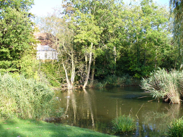 Fishponds Park, Tolworth Reflections in the pond in this small suburban park.